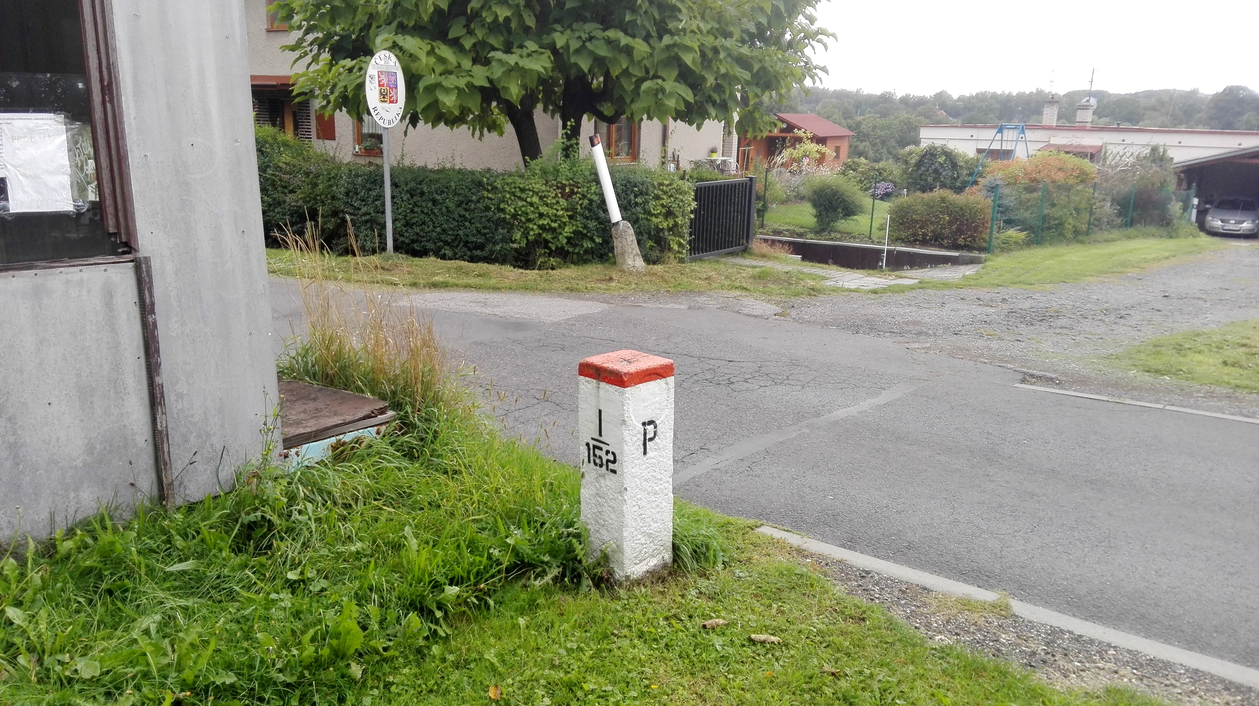 Skrbeńsko-Petrovice u Karviné border crossing